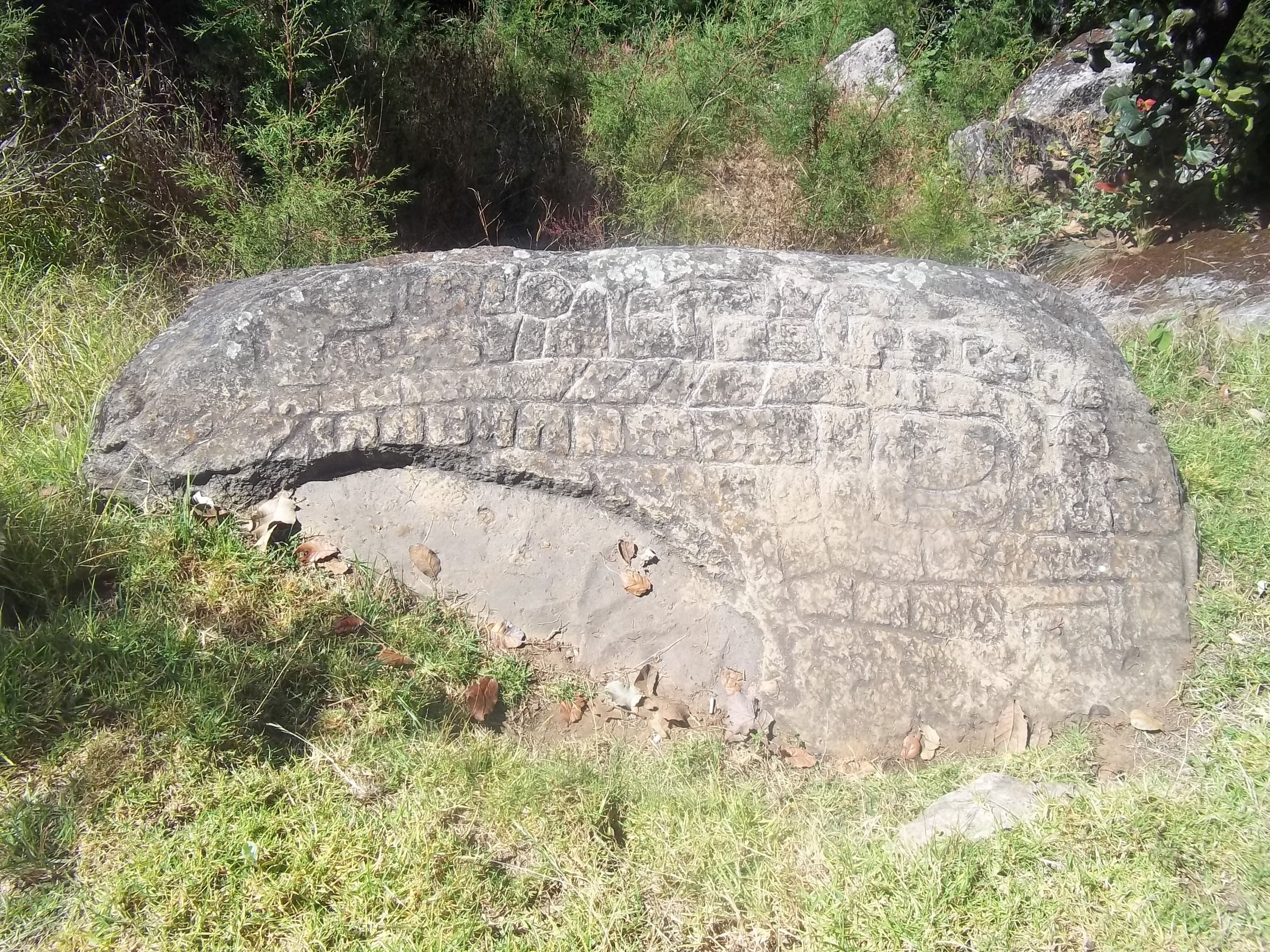 K'iaqbal, Cantel, Quetzaltenango, Guatemala. Maya ritual site with a couple of pre-Columbian scultpures.